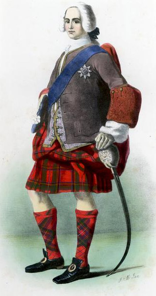 "Stewart". A plate illustrated by R. R. McIan, from James Logan's The Clans of the Scottish Highlands, published in 1845.